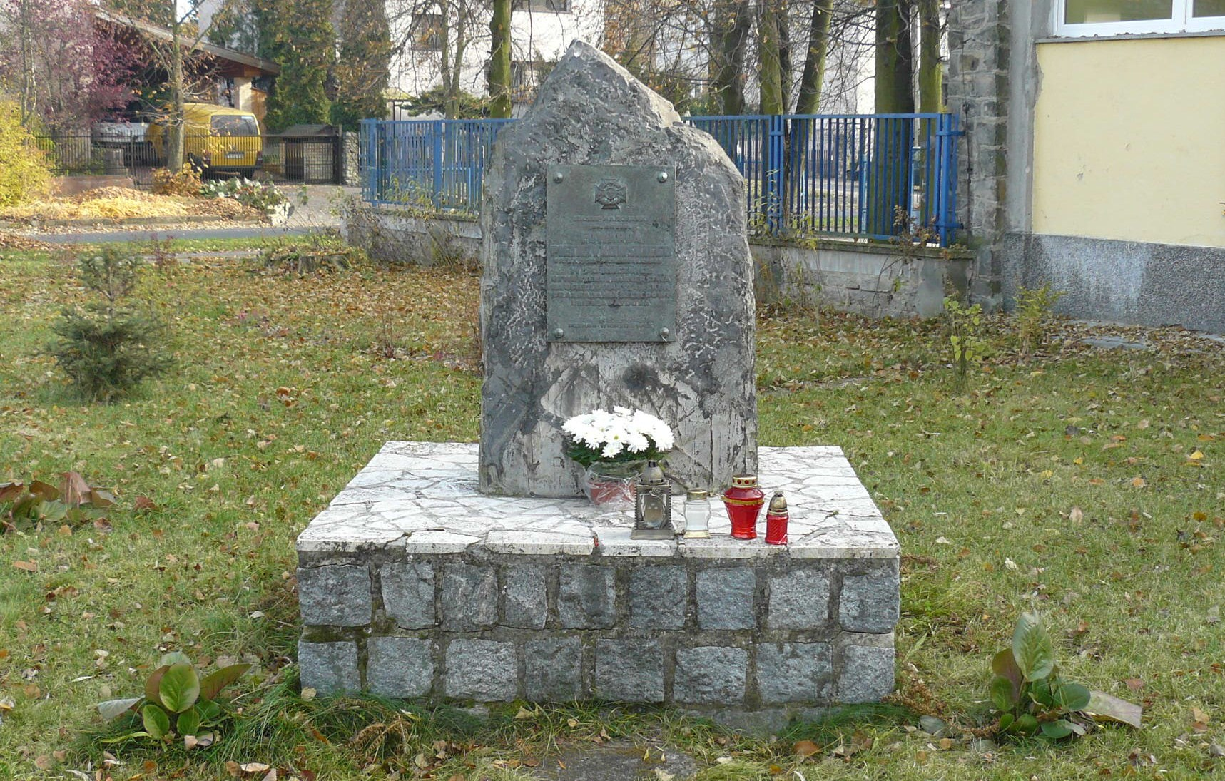 Edward Pietrzykowski erratic, Poznan, Minska Street.